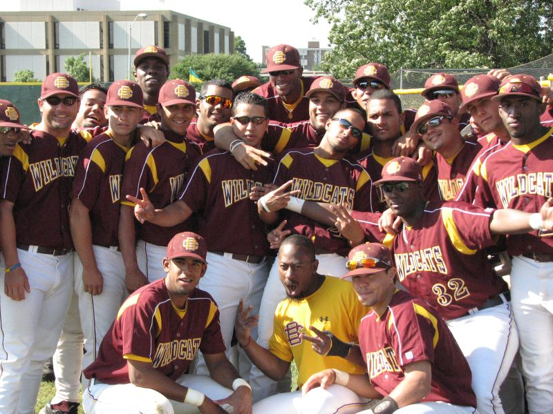 Bethune-Cookman College Wildcats baseball team at the 2007 MEAC Baseball Tournament